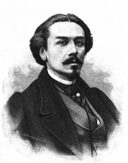 Russian writer Vsevolod Krestovsky